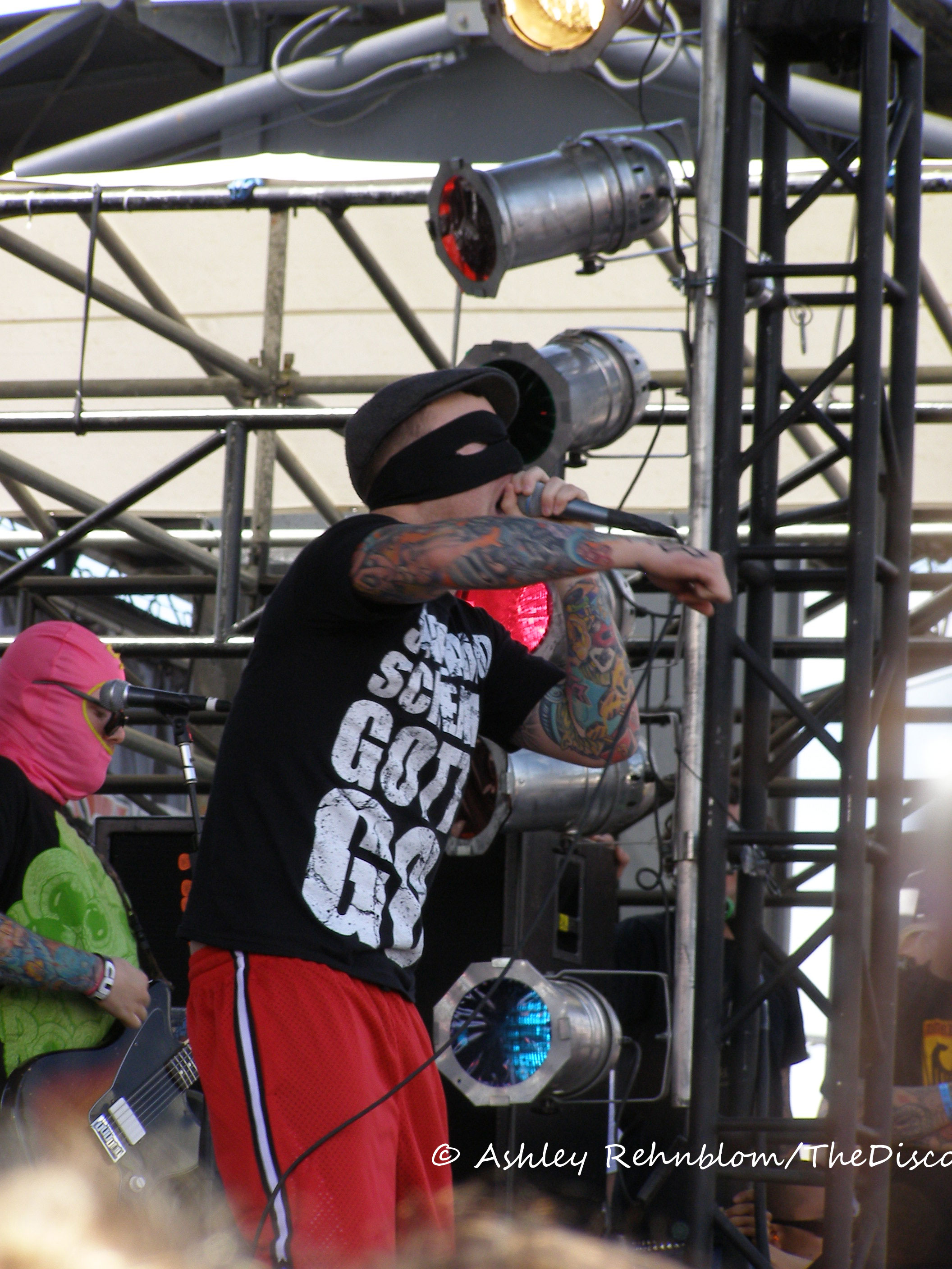 The International Superheroes of Hardcore performing at Bamboozle in East Rutherford, New Jersey on May 9, 2009.